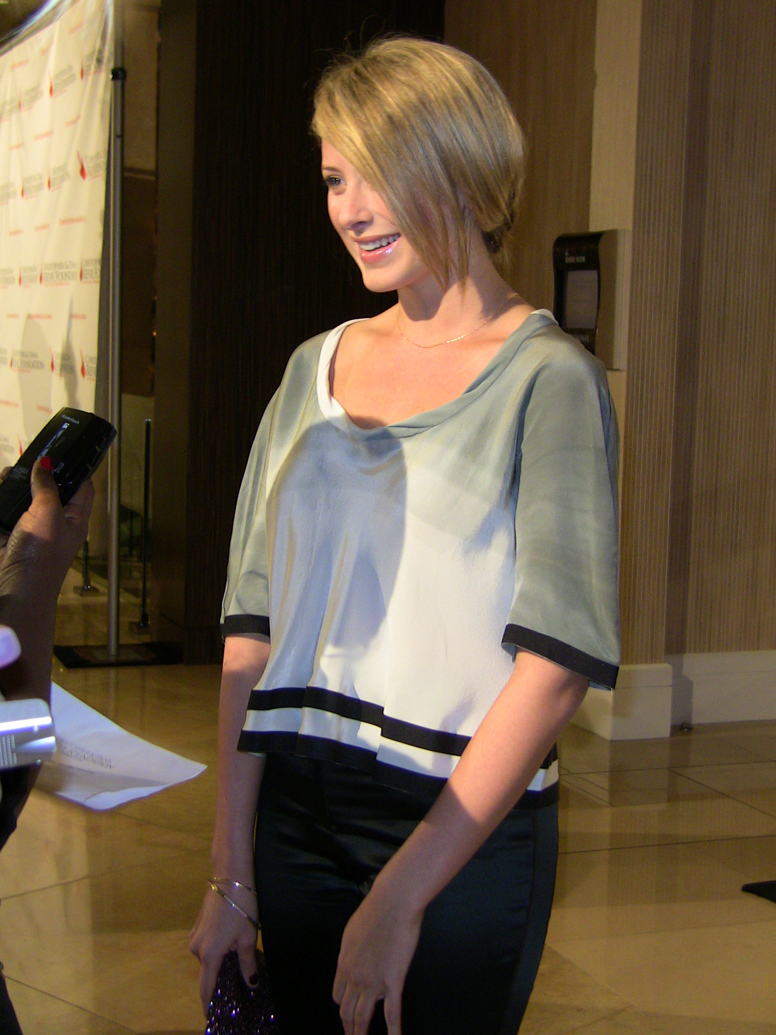 Making Magic Happen, Beverly Hilton, Beverly Hills, Calif. - Dec. 2, 2008